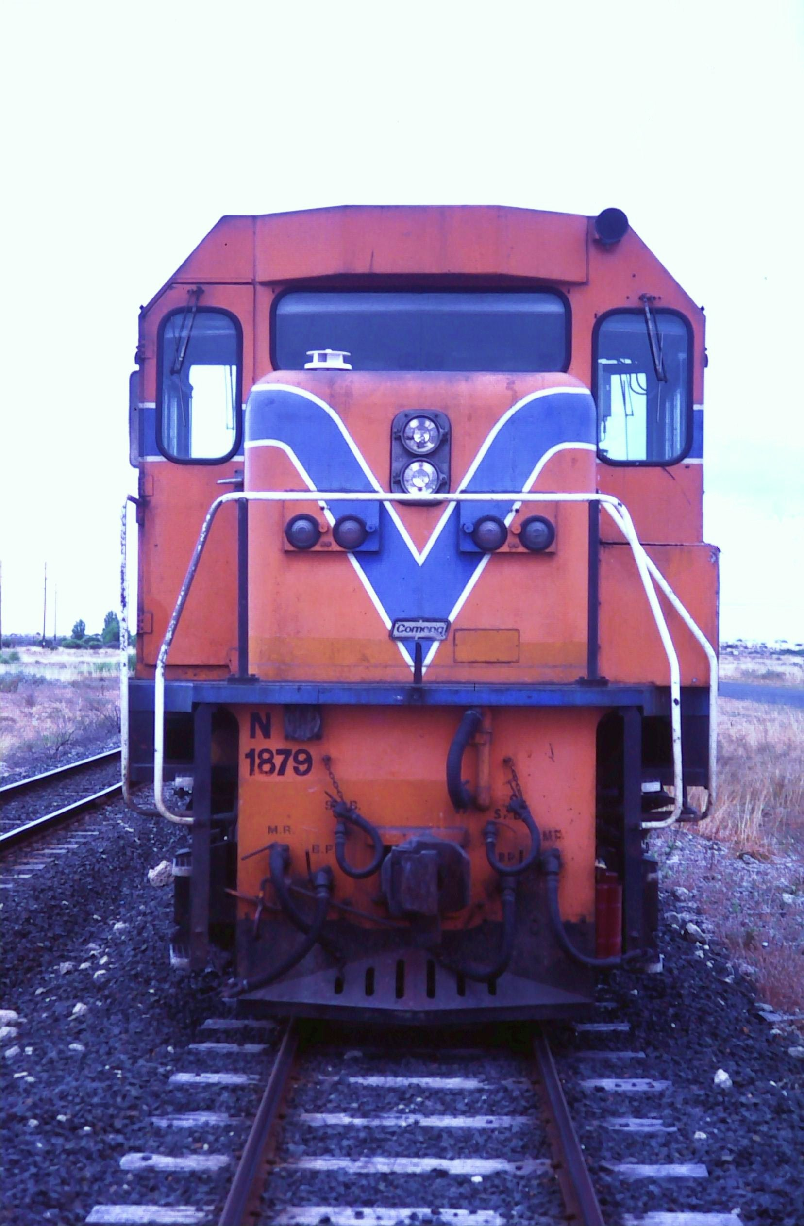 Western Australian Government Railways (WAGR) N class diesel-electric locomotive no N1879 at Bunbury Harbour, Western Australia.Kodachrome slide converted by Kaiser Baas Photo Maker Pro into a digital image.